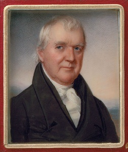 Portrait of Epaphroditus Champion in 1825 by Anson Dickinson